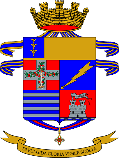 Coat of Arms of the 187° Paratrooper (Paracadutisti) Regiment; Italian Army.